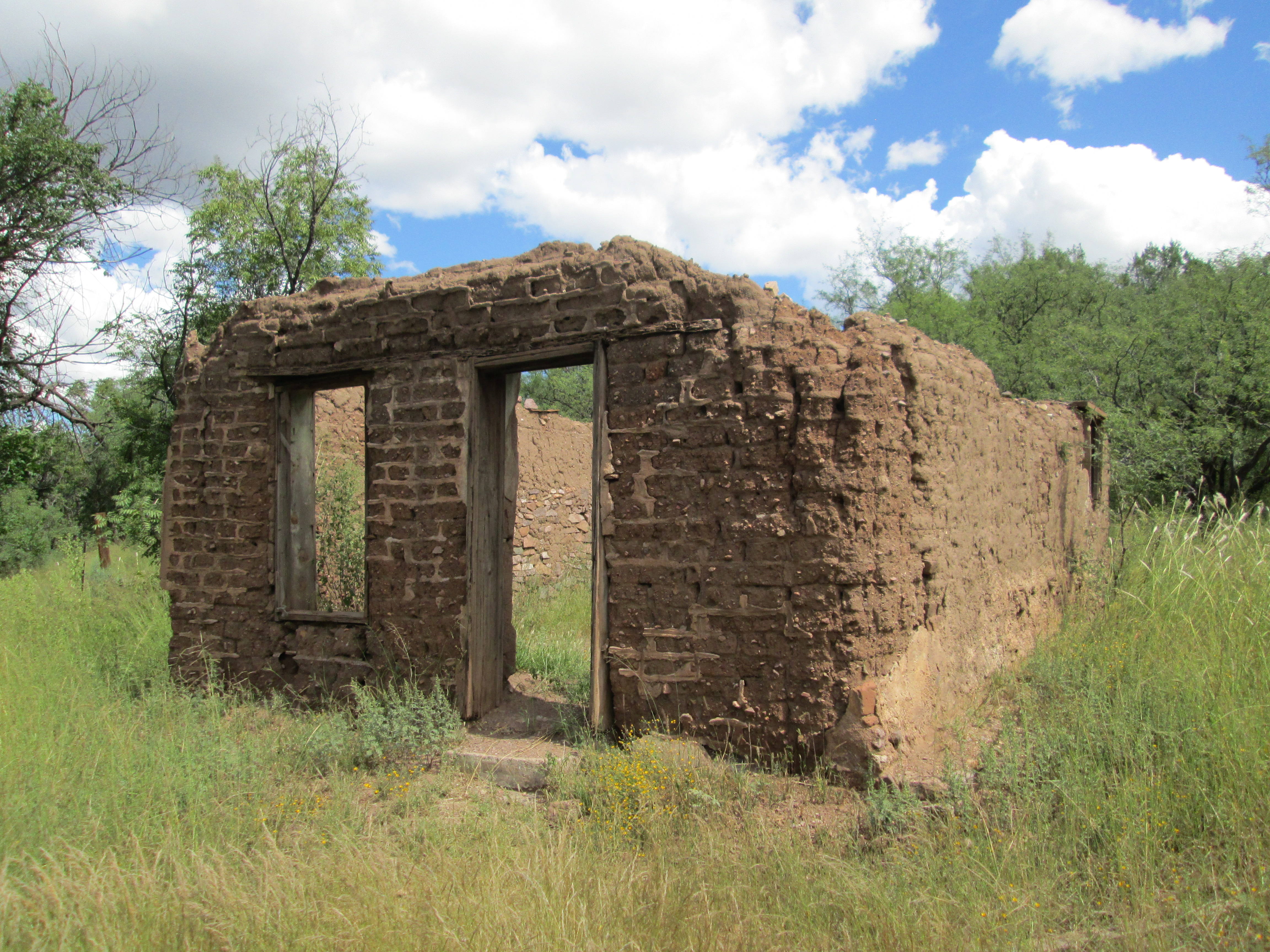 The ruins of an adobe house and pool hall originally owned by Ignacio Arias in the ghost town of Harshaw, Arizona. The building is now owned by the Hale family and is located at the edge of the Hale Ranch property.